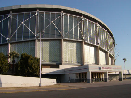 Arizona Veterans Memorial Coliseum, photo by Walt Lockley